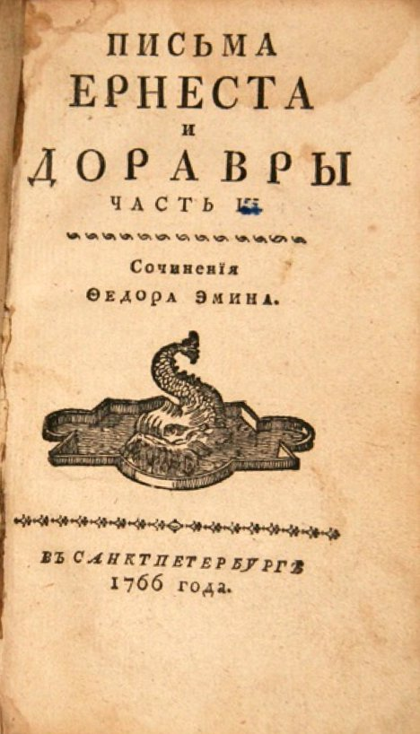 Fedor Emin Pisma 1766